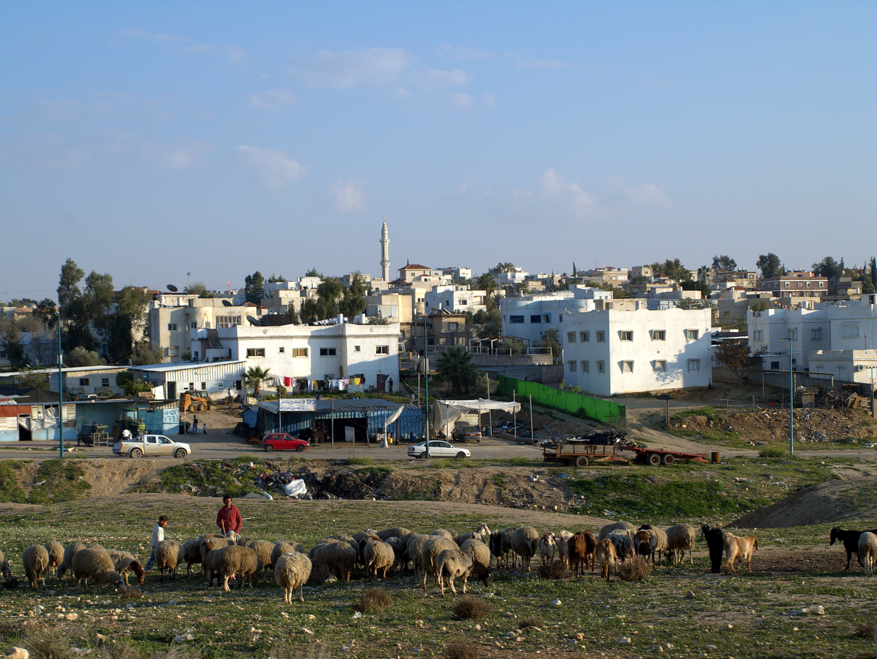 Rahat, the largest Bedouin city in Israel, and the only Bedouin community to have city status. Located in the Negev desert.